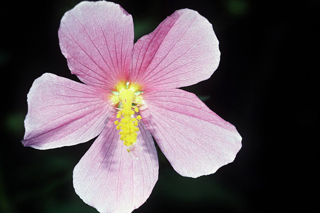 Kosteletzkya virginica Robert H. Mohlenbrock @ USDA-NRCS PLANTS Database / USDA SCS. 1991. Southern wetland flora: Field office guide to plant species. South National Technical Center, Fort Worth, TX.